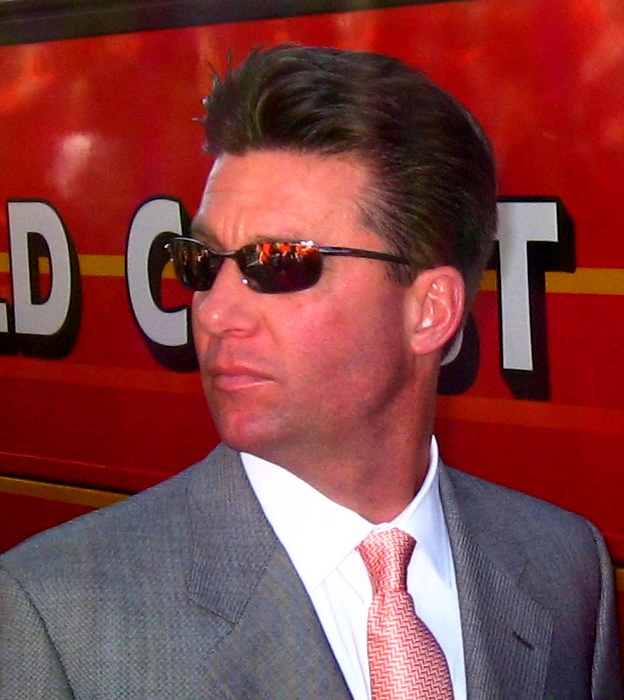 Mike Gundy walking towards the team bus heading to holiday bowl game on December 30, 2008